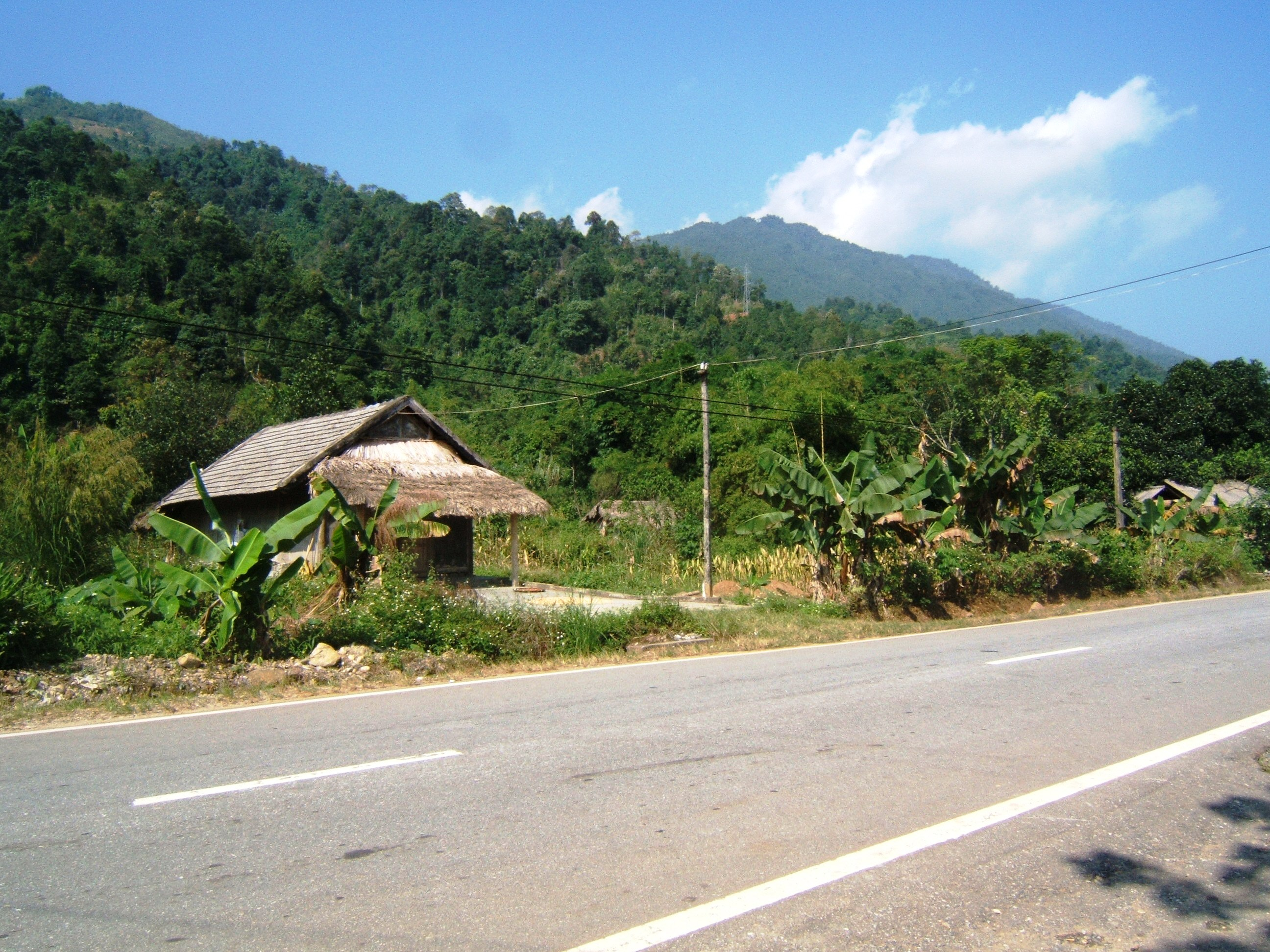 Road 2A in Tan Thanh commune, Ha Giang province, Vietnam